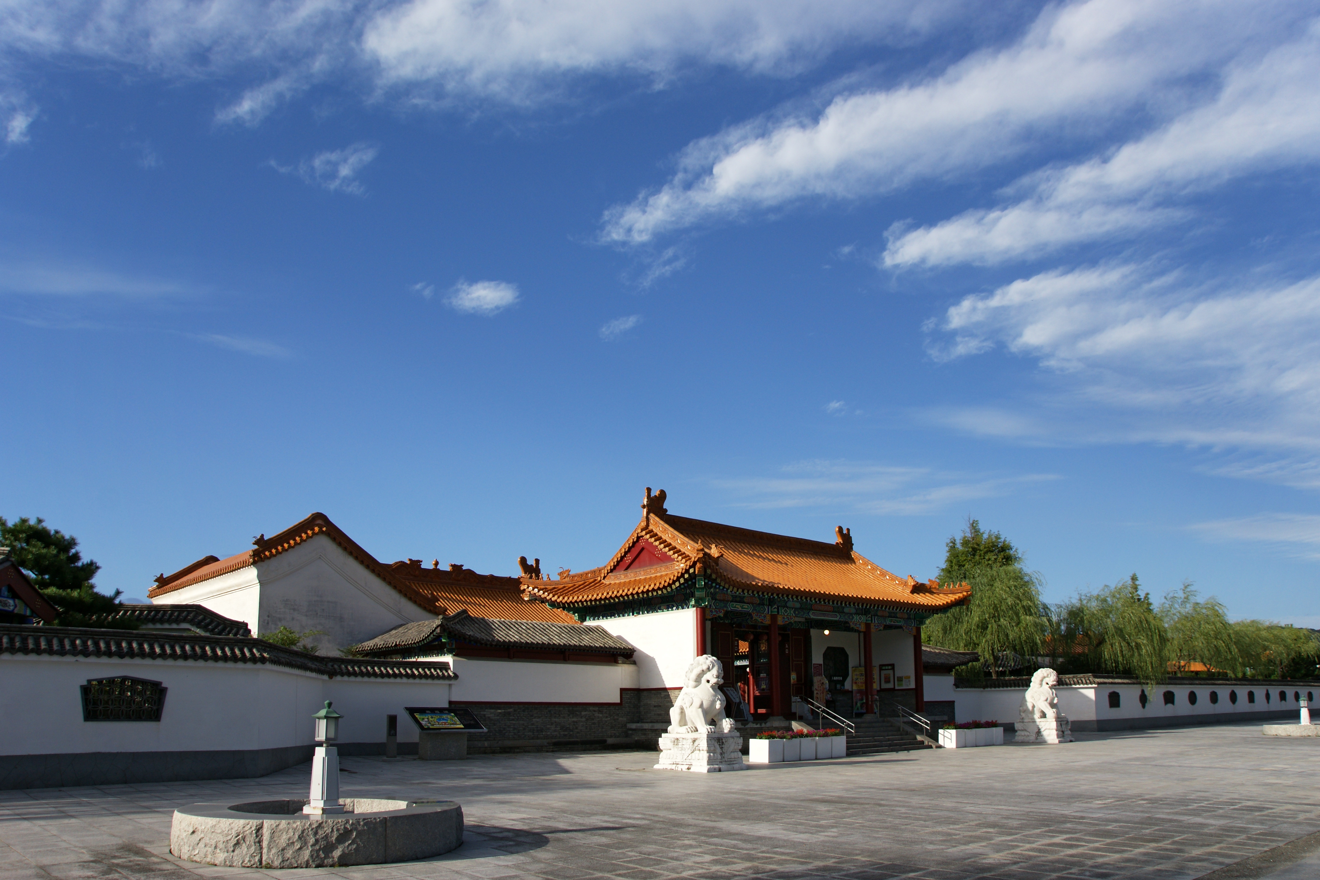 Enchoen in Yurihama, Tottori prefecture, Japan